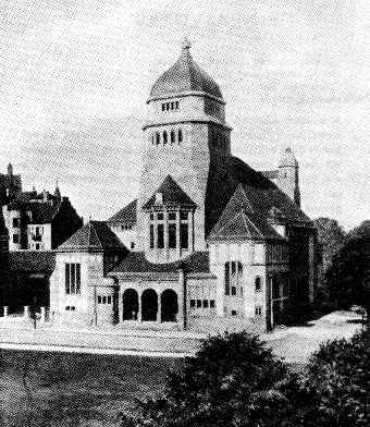 Bamberg synagogue (1910-1938) front view